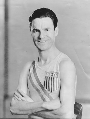 Walter T. Gegan, portrait from a family album